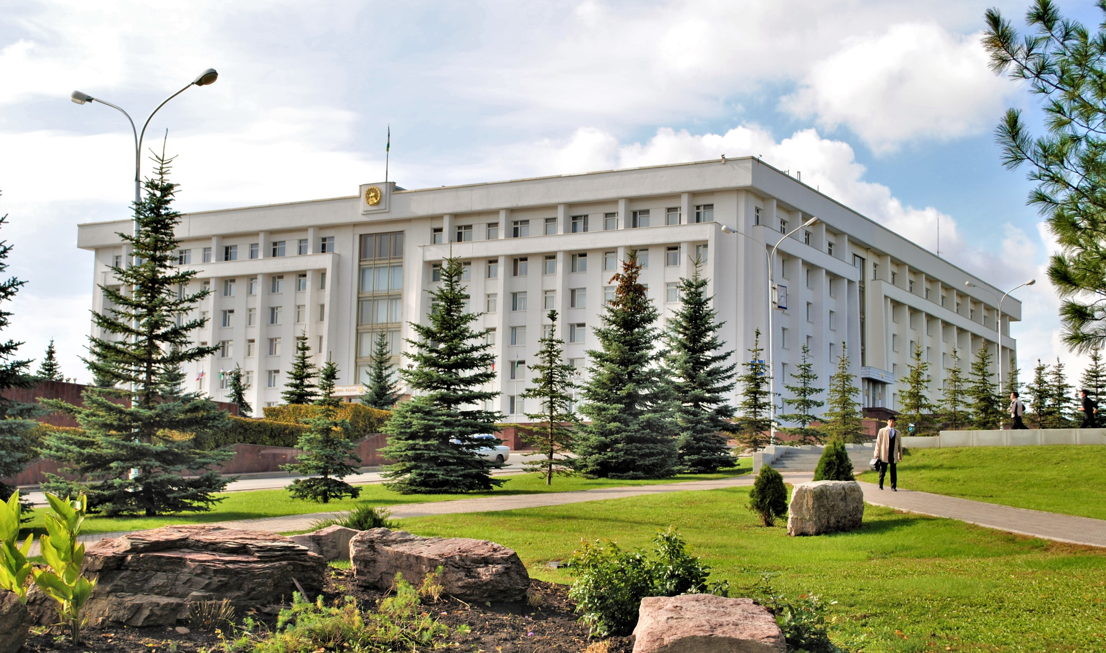 White House of the Republic of BashkortostanБашҡортса: Аҡ йорт